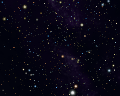 Image of Vulpecula